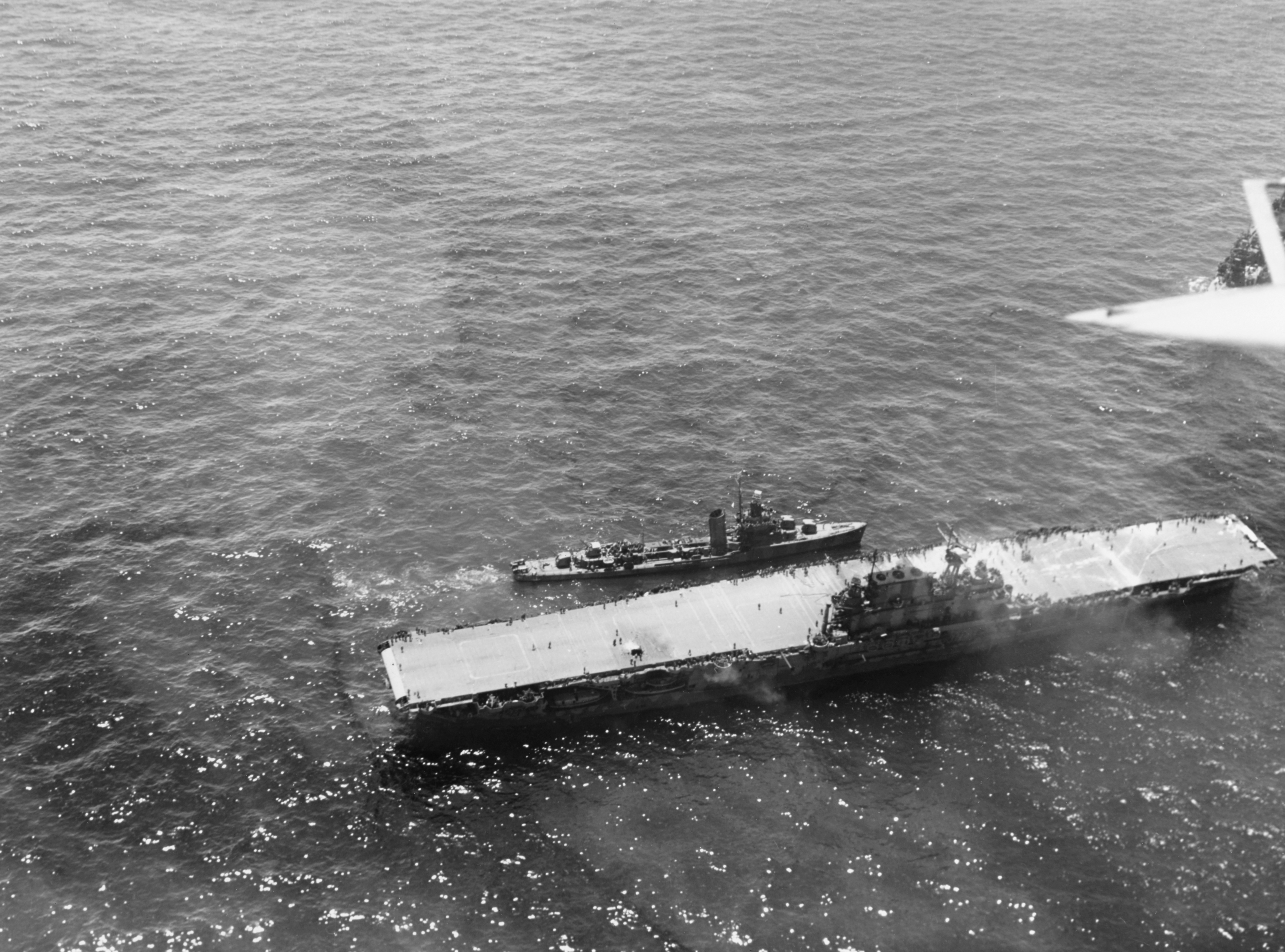 The damaged U.S. Navy aircraft carrier USS Hornet (CV-8) during the Battle of Santa Cruz Islands with the destroyer USS Russell (DD-414) alongside. On the right (partially hidden by photographer's plane) is USS Northampton (CA-26), prepearing to take the Hornet in tow.